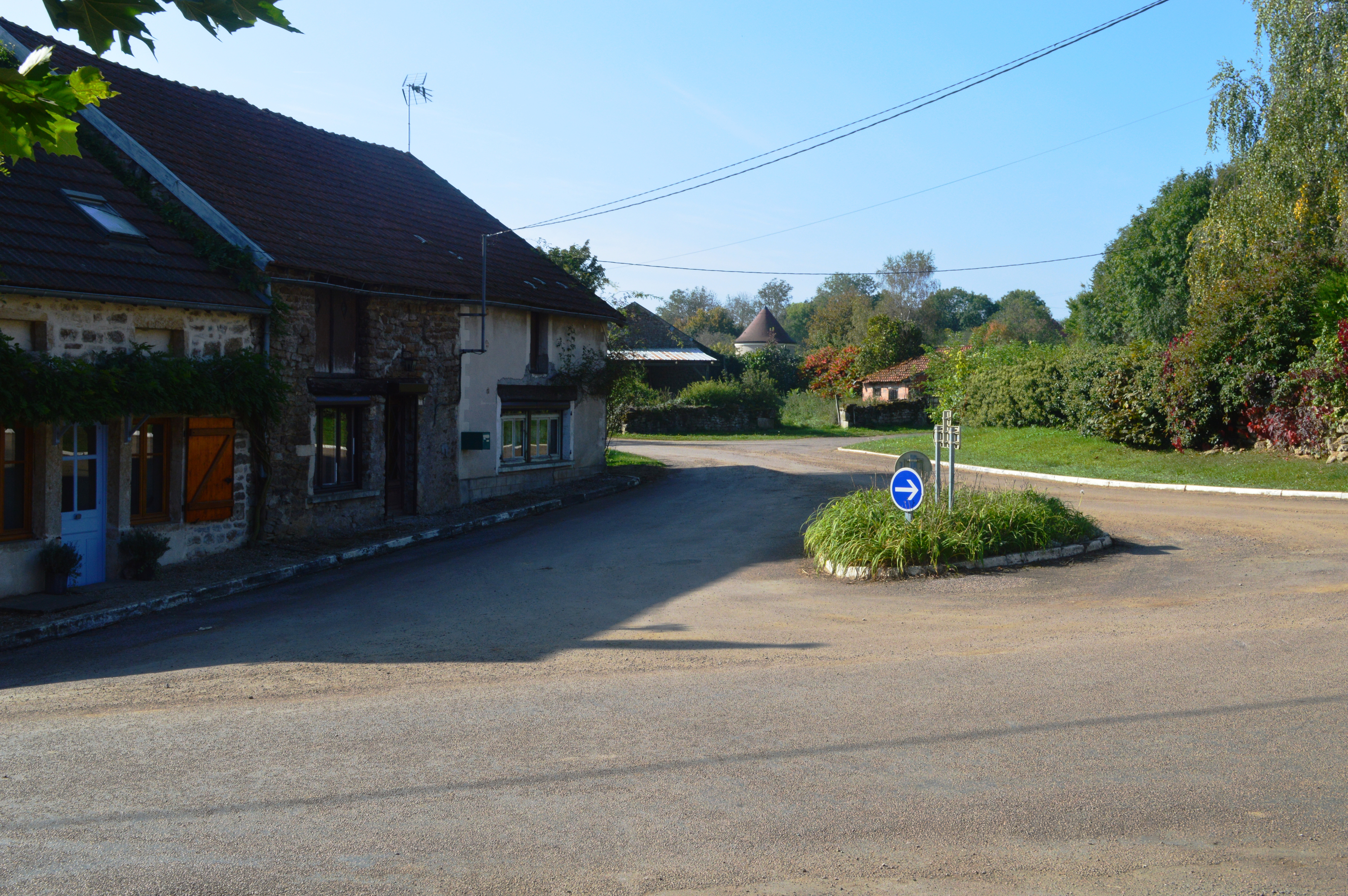 The Town Square